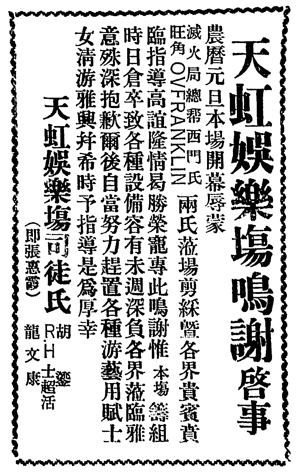 Acknowledgement Notice Advertisement of Tin Hung Amusement Park, Hong Kong 中文（香港）: 香港天虹娛樂場的鳴謝啟事